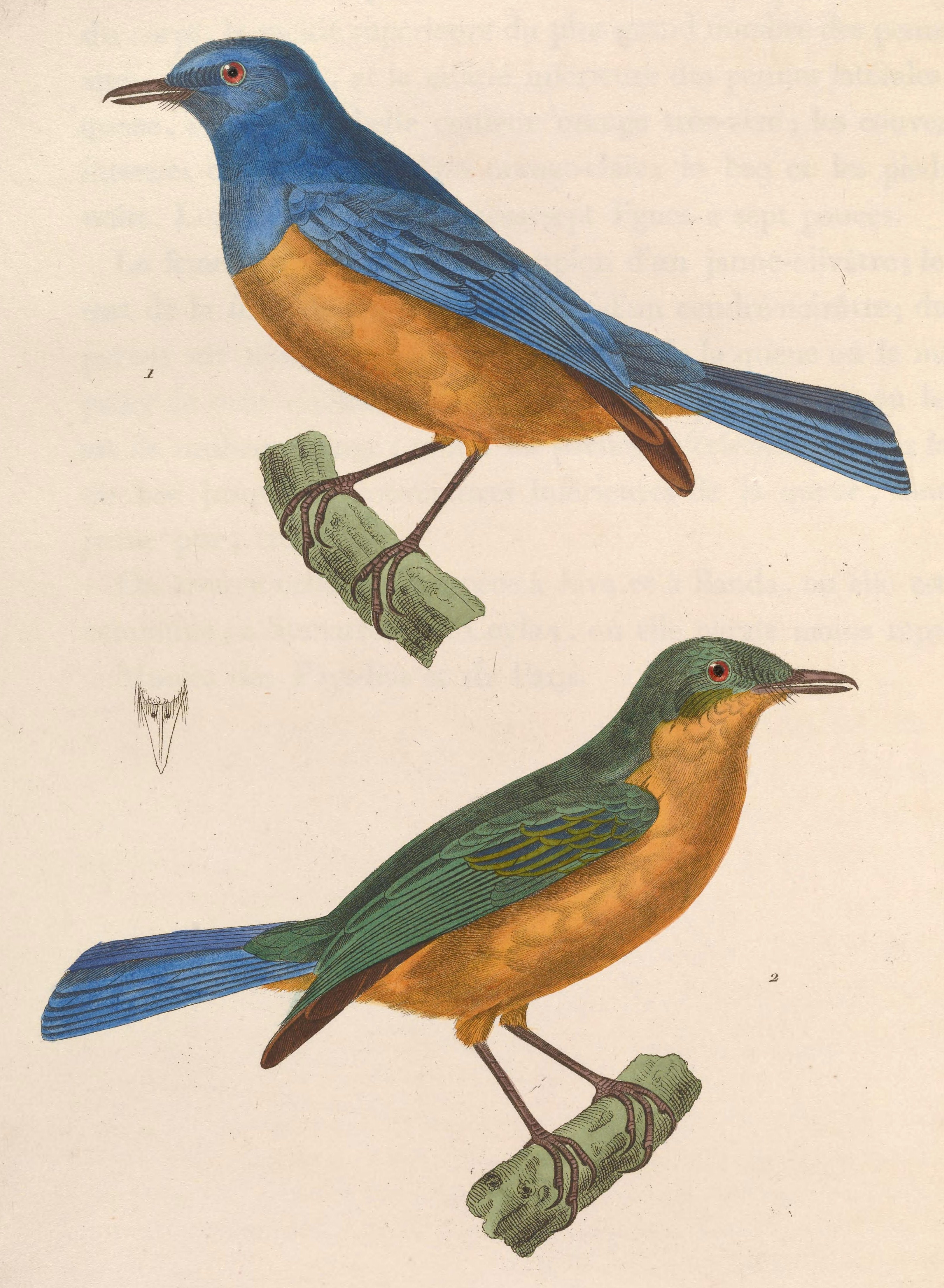 « Muscicapa hyacinthina » = Cyornis hyacinthinus (Timor Blue Flycatcher) - male and female